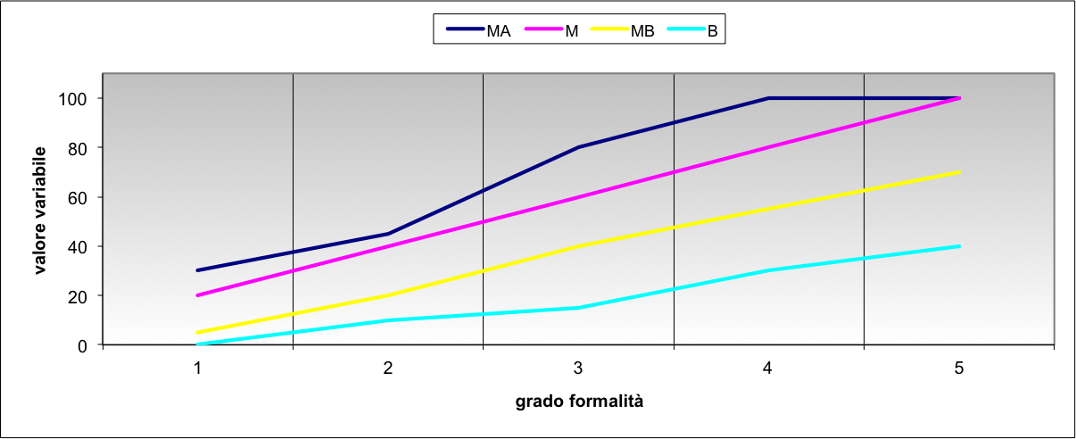 marker's example